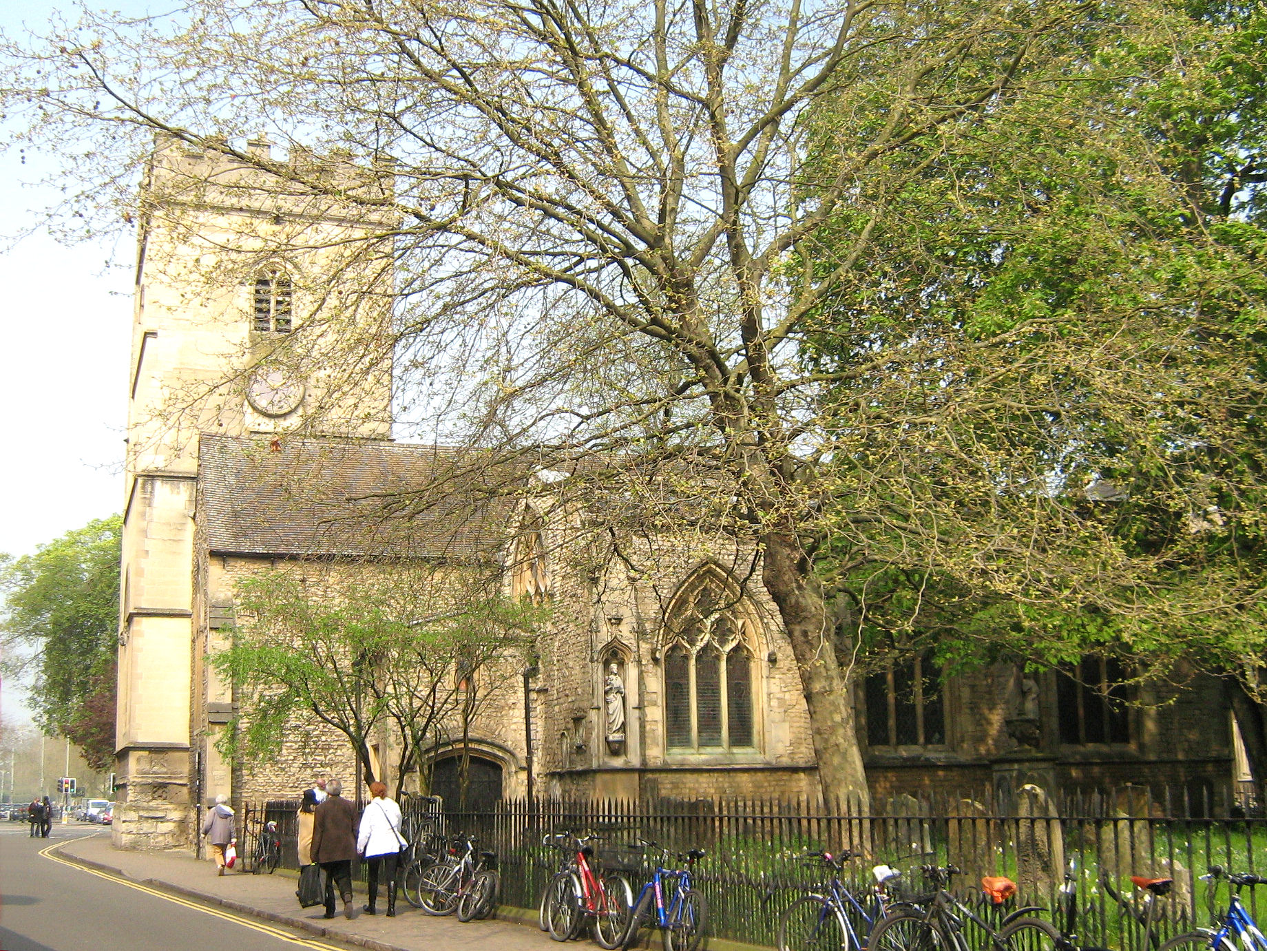 The Church of St Mary Magdelene, Oxford